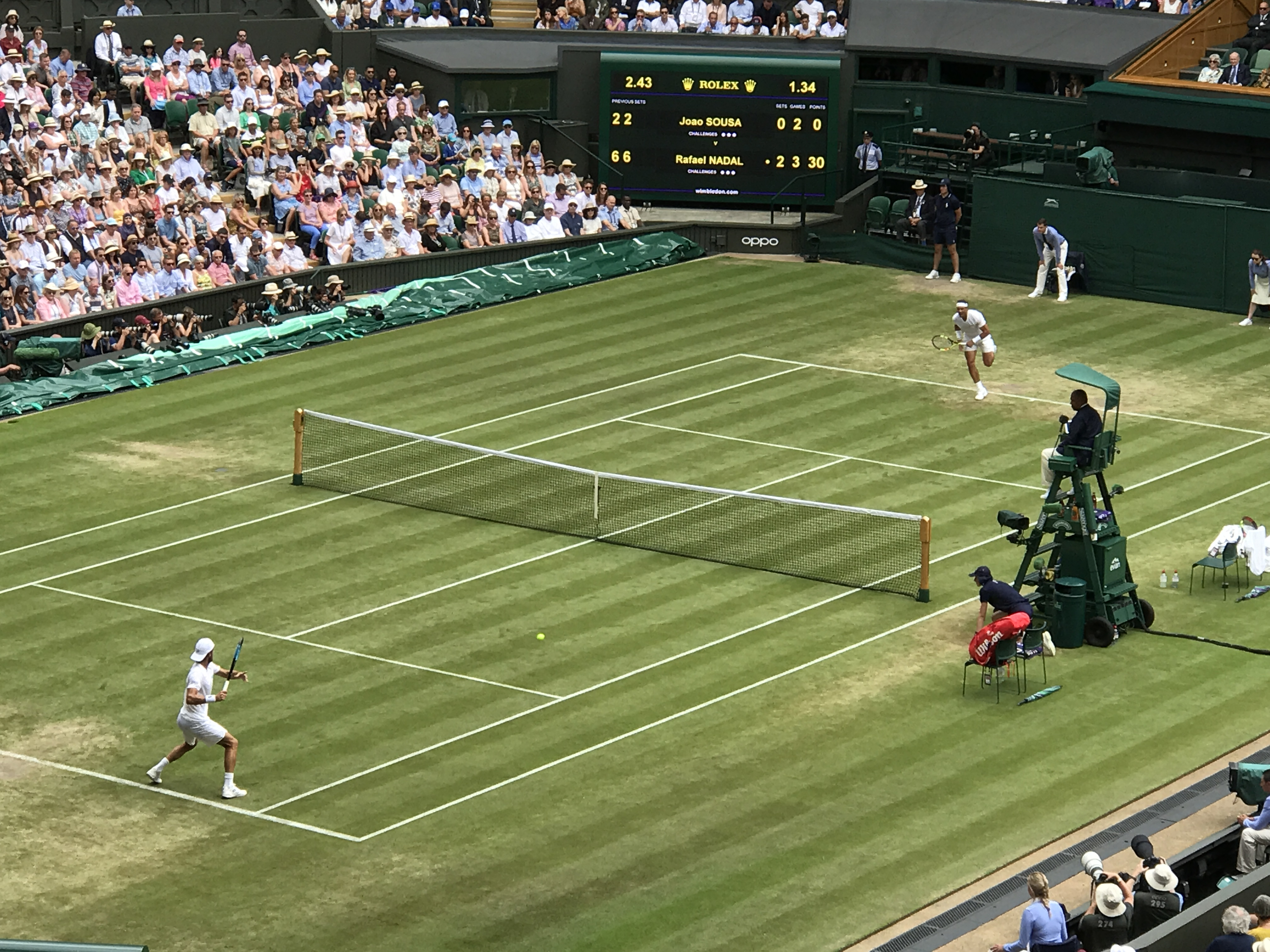 Rafael Nadal and Joao Sousa playing in set 3, game 6 of their match at the 2019 Wimbledon tennis tournament.